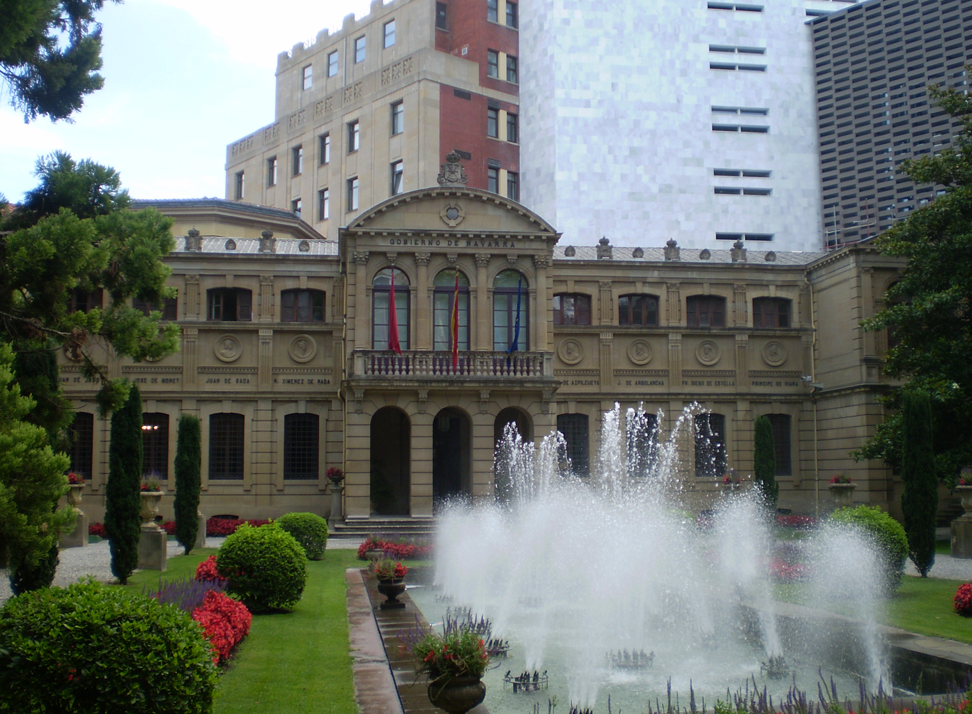 Gardens of Palacio de Navarra, in Pamplona